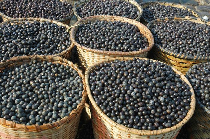 Naidí